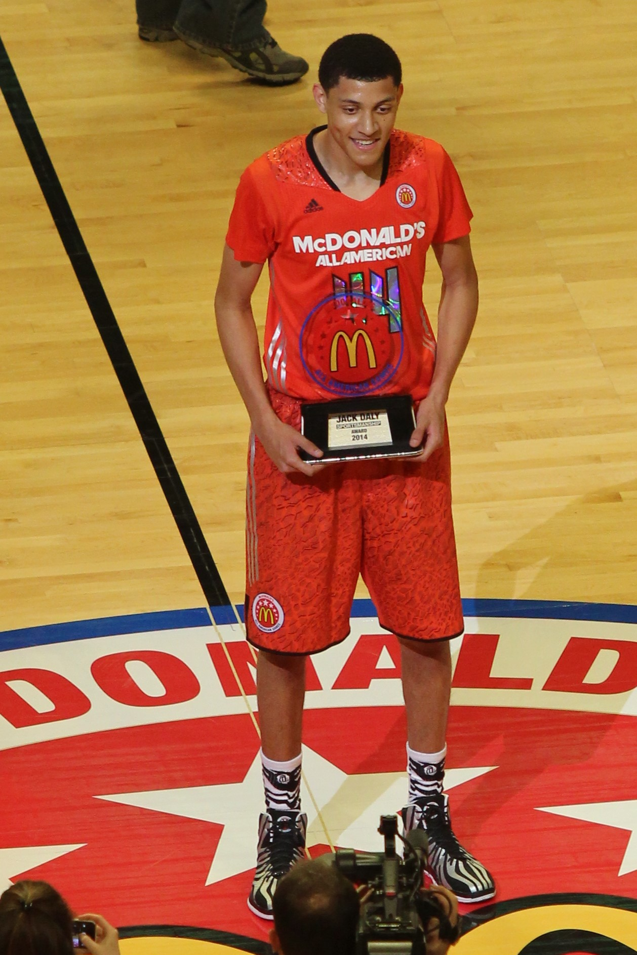 Justin Jackson receiving the Jack Daly sportsmanship Award at the w:2014 McDonald's All-American Boys Game